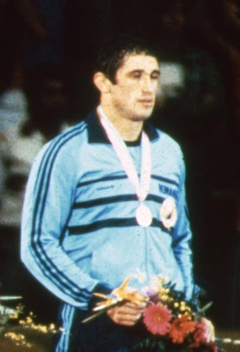 Vasile Andrei at the 1984 Olympics held in Los Angeles. From the Olympics Collection (COLL/1515) at the Marine Corps Archives and Special Collections OFFICIAL MARINE CORPS PHOTOGRAPH